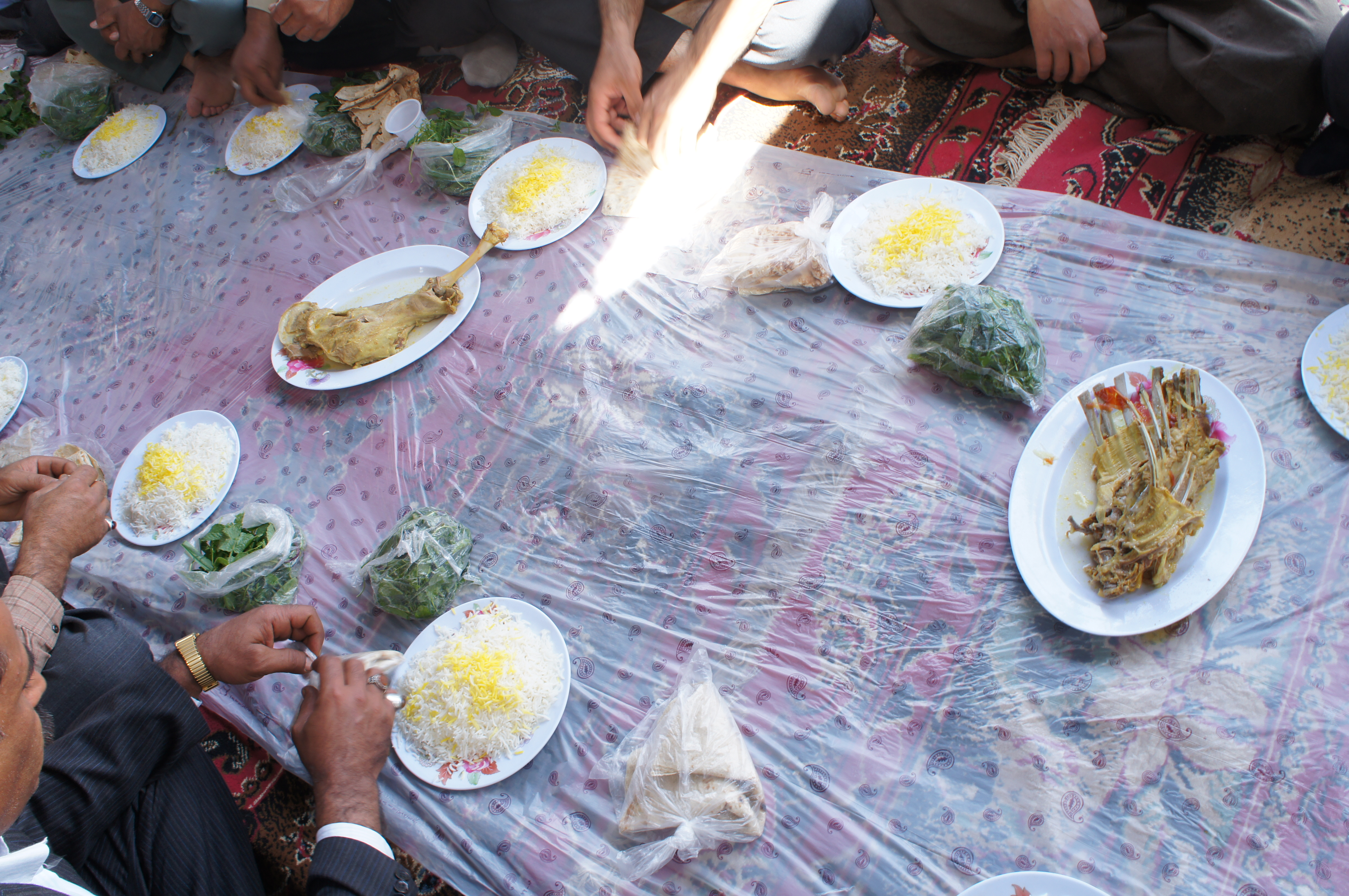 Funeral food in a village of Ahvaz - Iran, which is called Mufattah